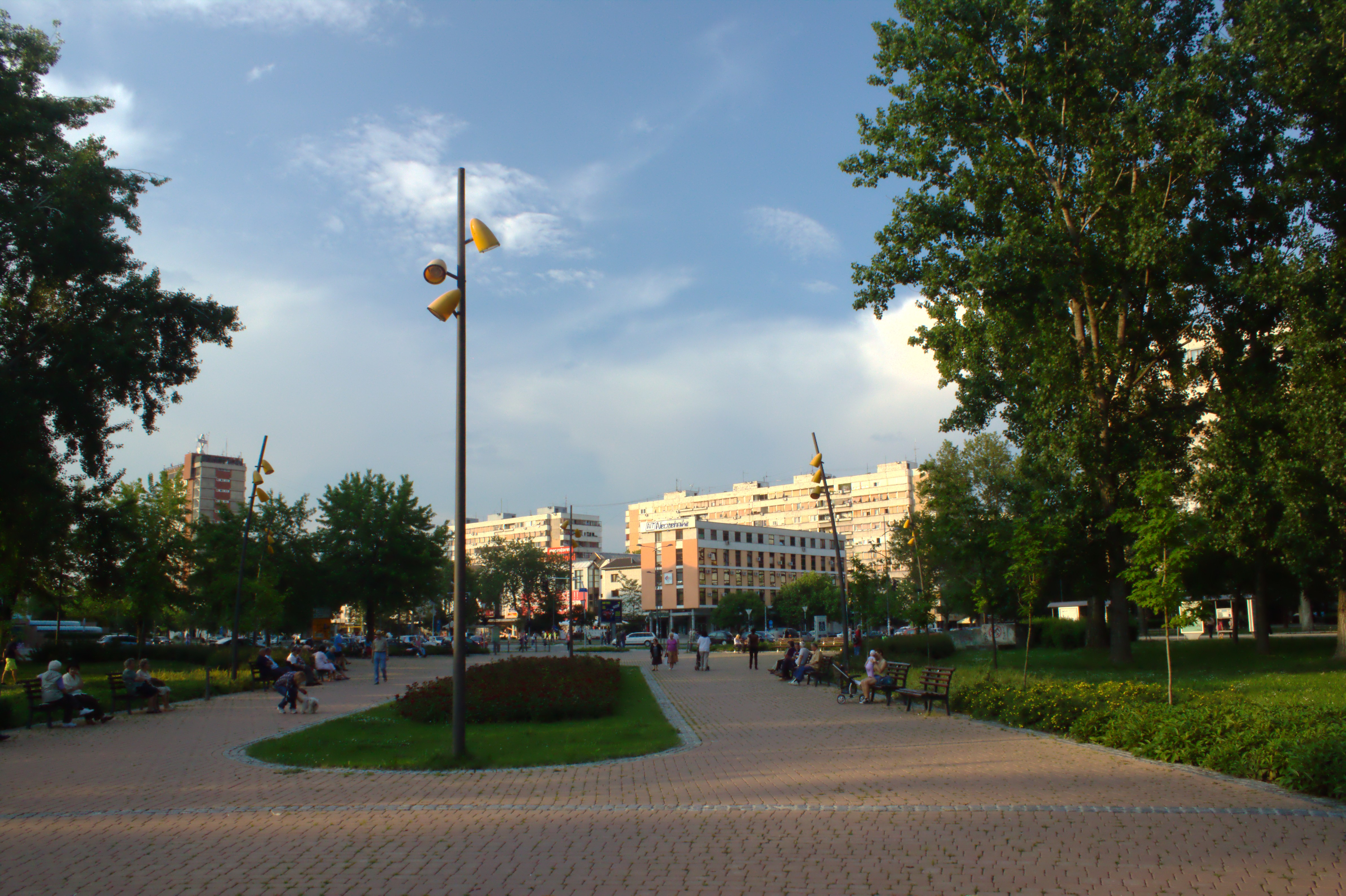 Limanski park in the evening - the path from the park towards the Liberation Boulevard, Novi Sad, Serbia